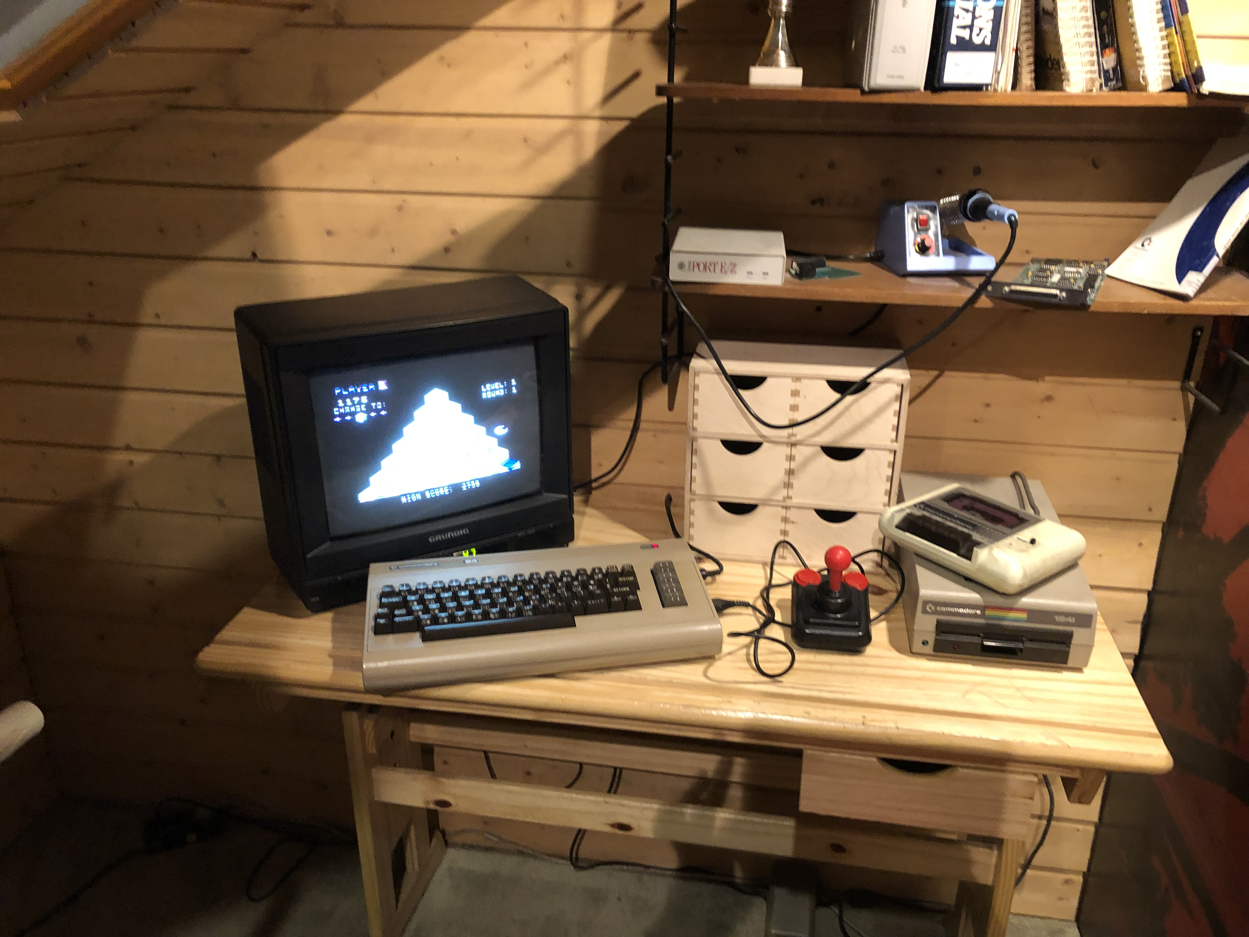 Commodore 64 workspace with computer which launched video game Q*bert, Computerspielemuseum, Berlin